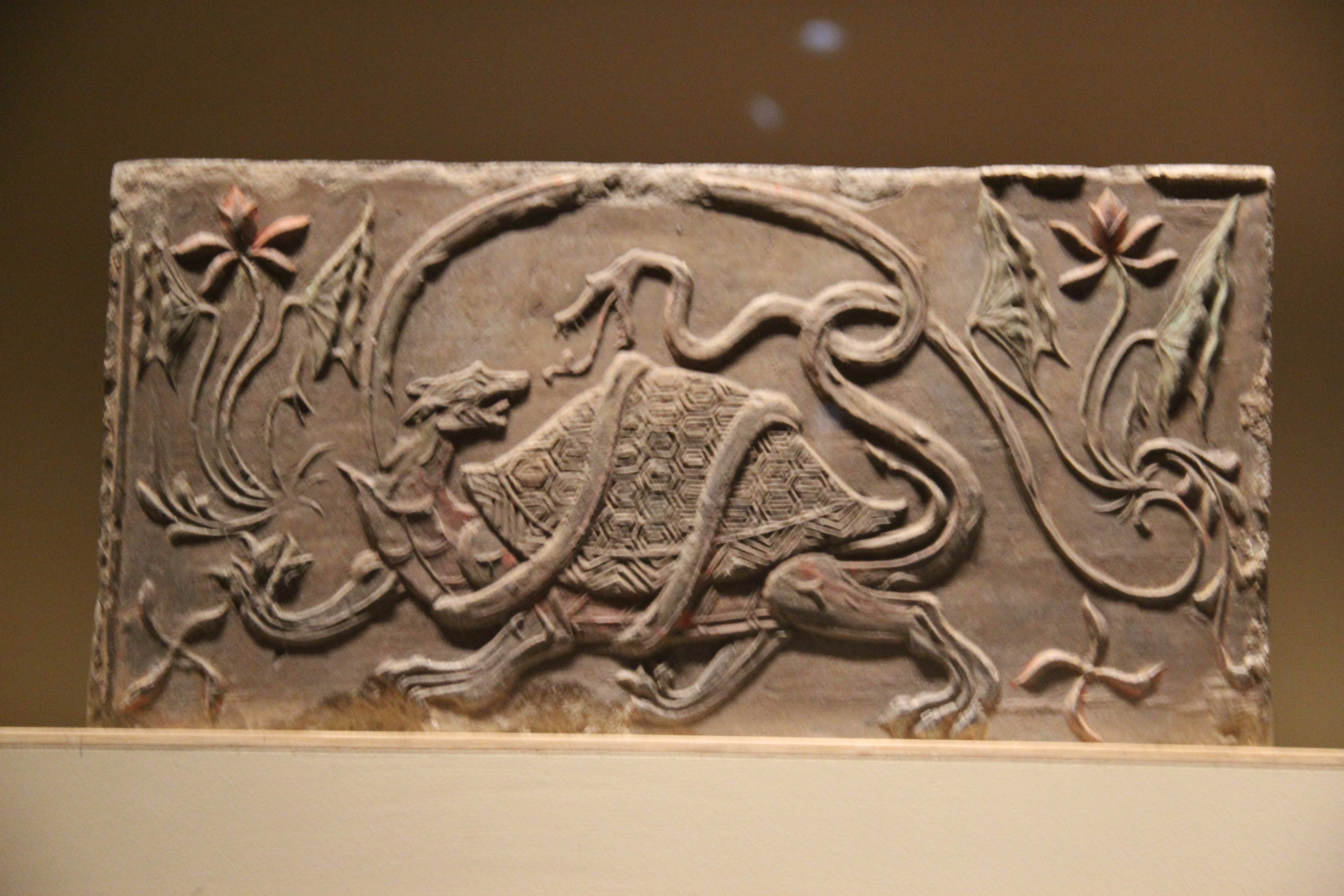 A Southern Dynasty brick relief displayed in Dengxian, Henan, 1958. National Museum: China through the Ages, Exhibit 5.